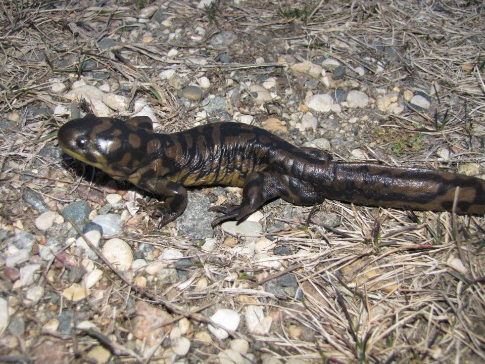 An adult tiger salamander (Ambystoma tigrinum) at the Prairie Wetlands Learning Center, Minnesota in March 2012. Tiger salamanders are also emerging from hibernation this week. With the warm temps and rain, they're moving from the prairie to wetlands to breed.